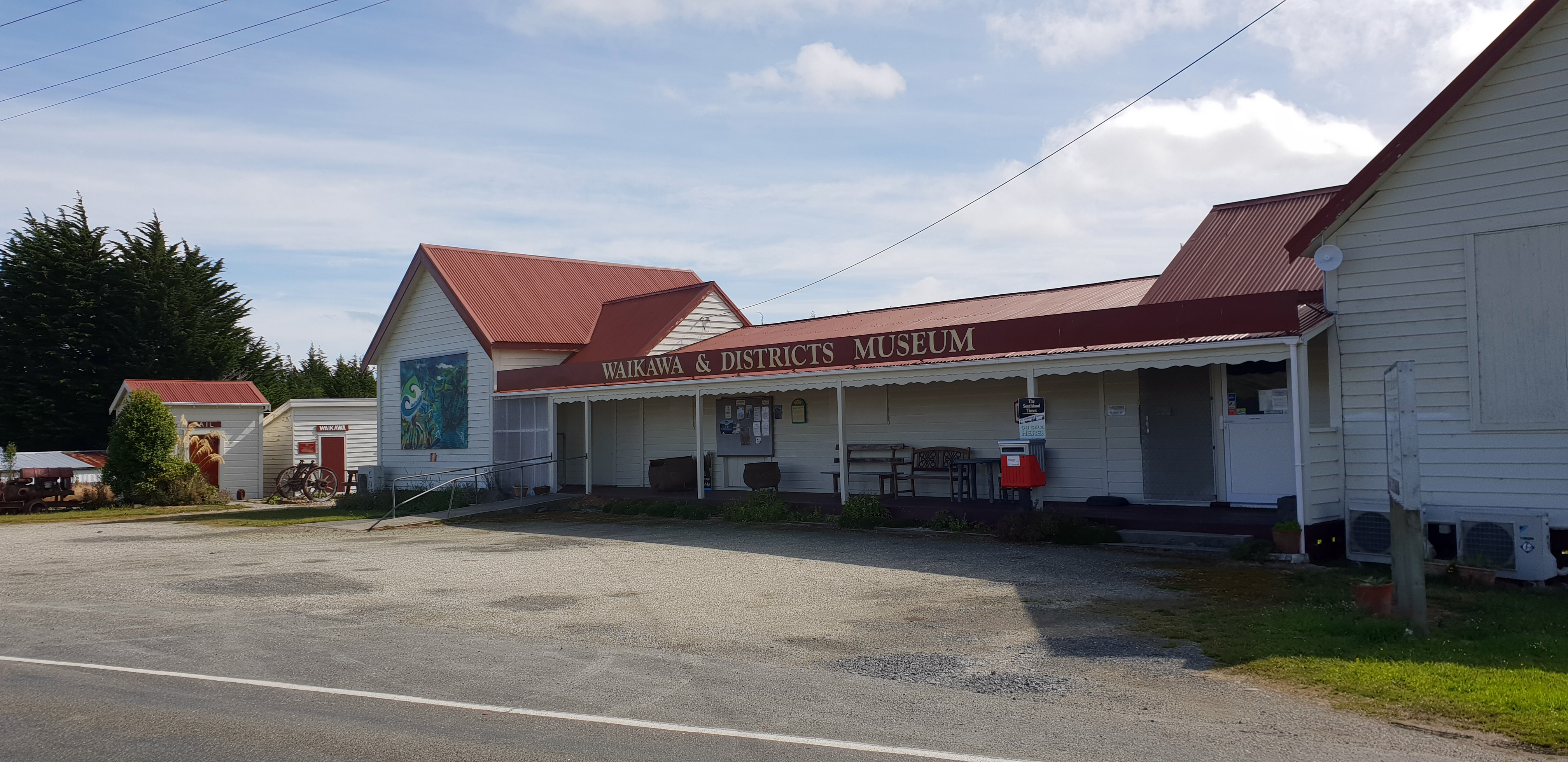 Waikawa, a small settlement in the Catlins, New Zealand (South Island)